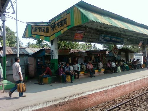 Picture of the Madhyamgram Station, West Bengal, India